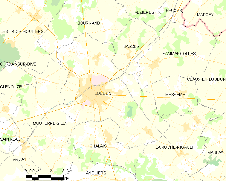 Map of French municipality Loudun